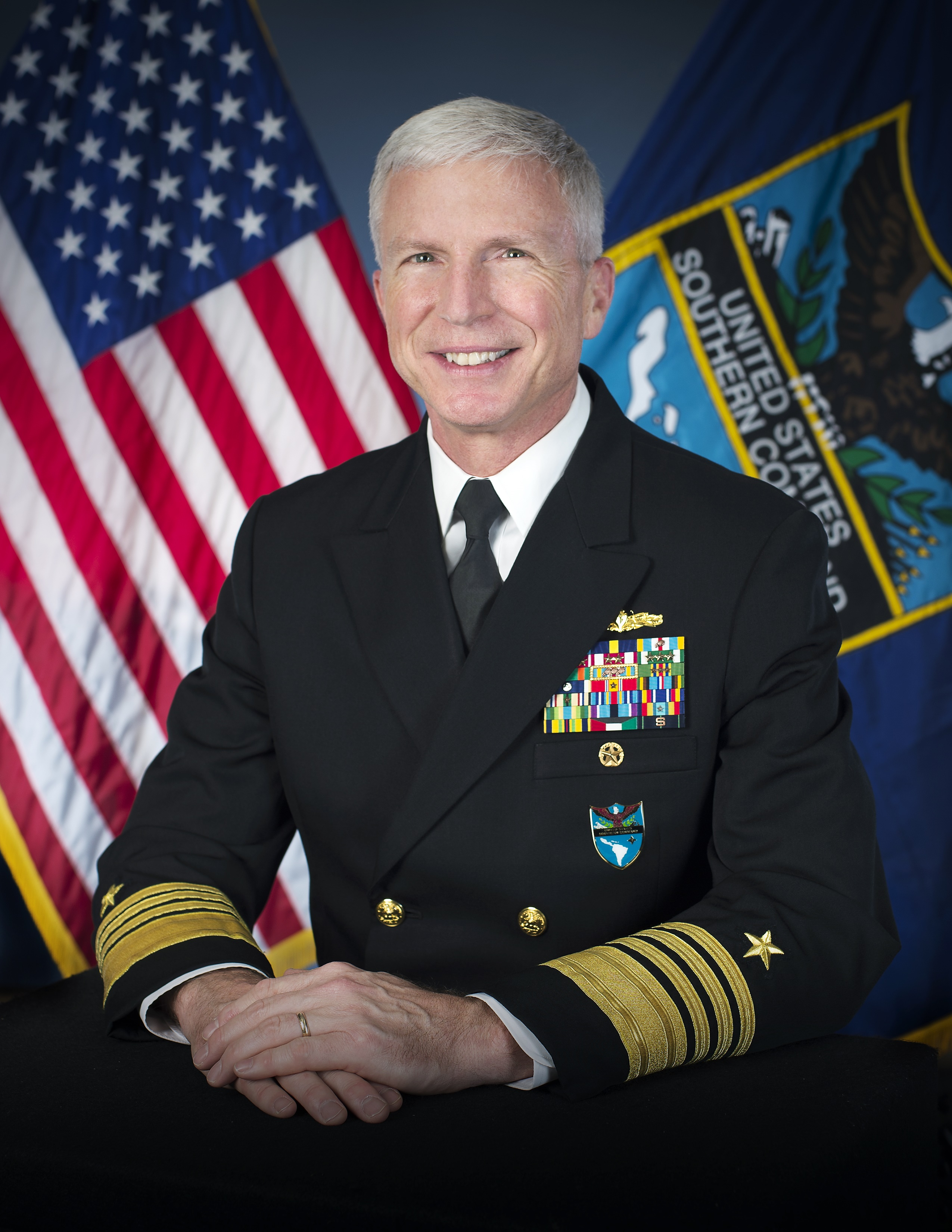 Official portrait